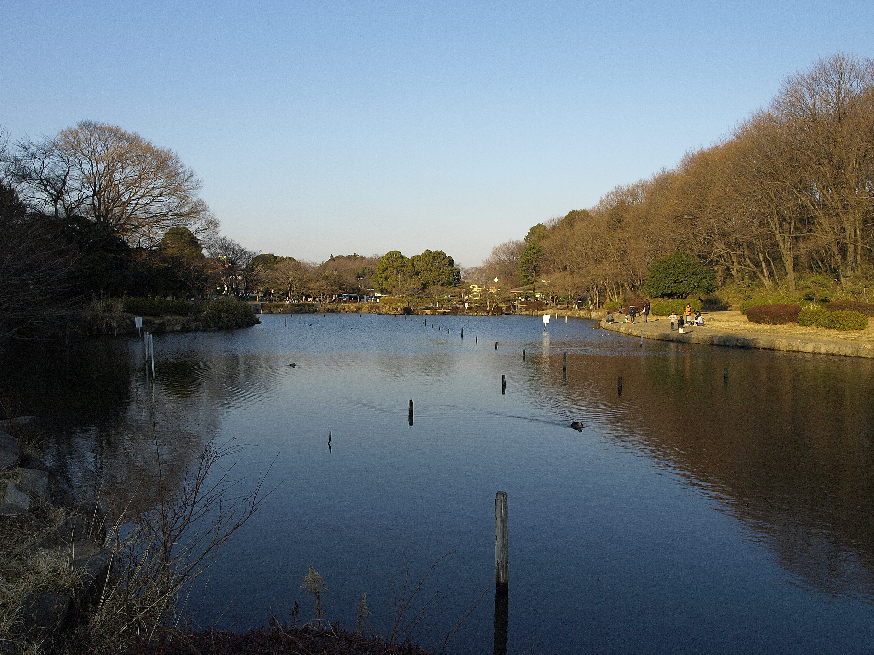 Children's Natural Park (Ooike Park) in Asahi-ku, Yokohama, Japan.